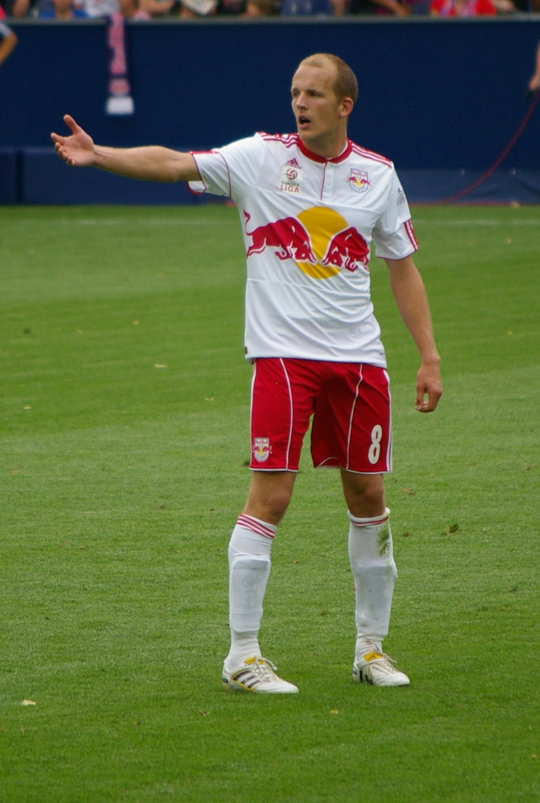 defender Red Bull Salzburg